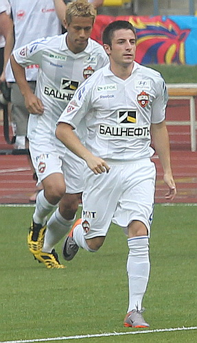 Zoran Tošić